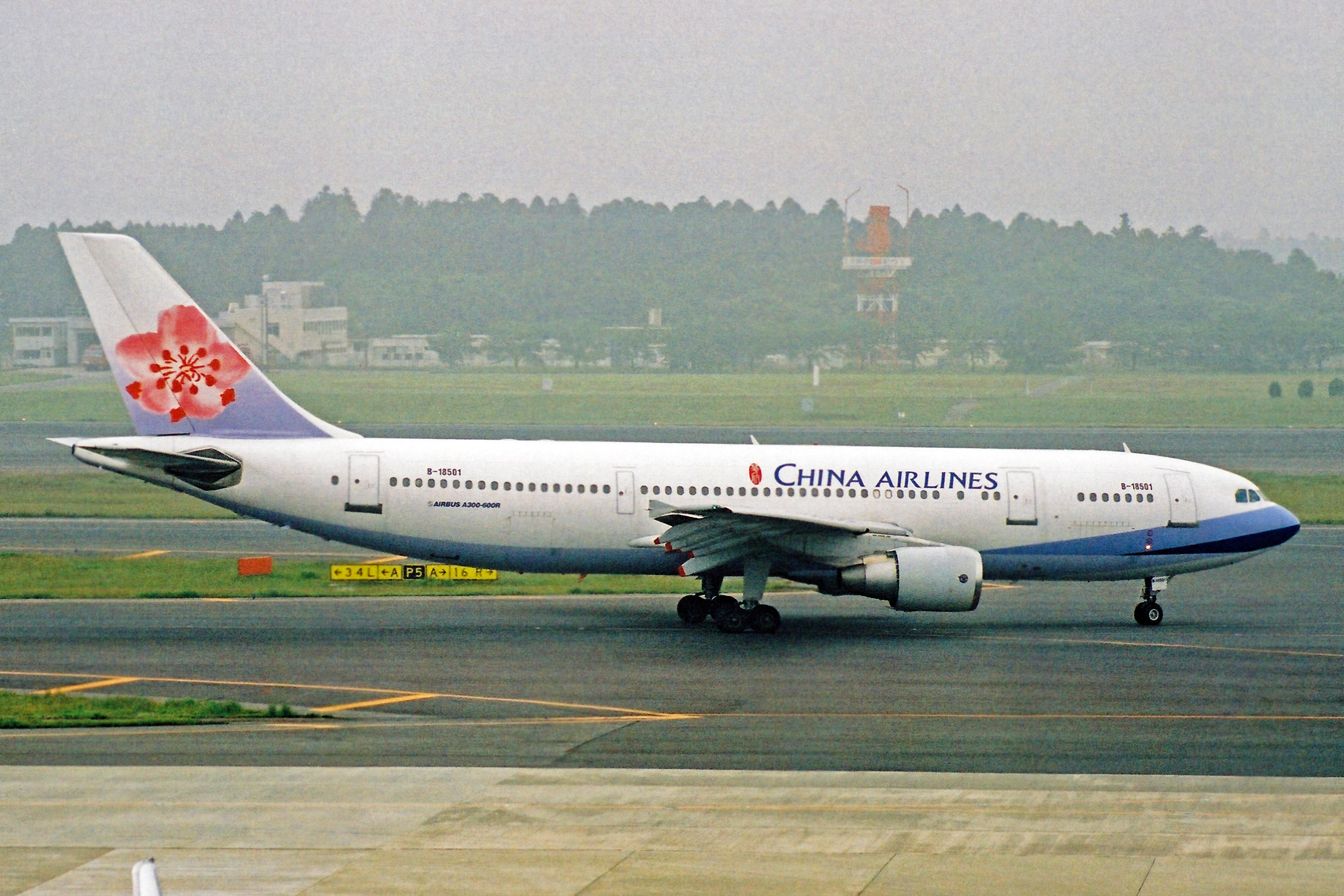 Built in Oct-96 and delivered new to China Airlines. This aircraft was sold to Air Atlanta Icelandic in Oct-06 as TF-ELE and was converted into a freighter in Apr-07. It was sold to Maximus Air Cargo, UAE, in Dec-08 as A6-MXB. It's currently (Feb-13) on lease to Etihad Crystal Cargo and based in Abu Dhabi (AUH).